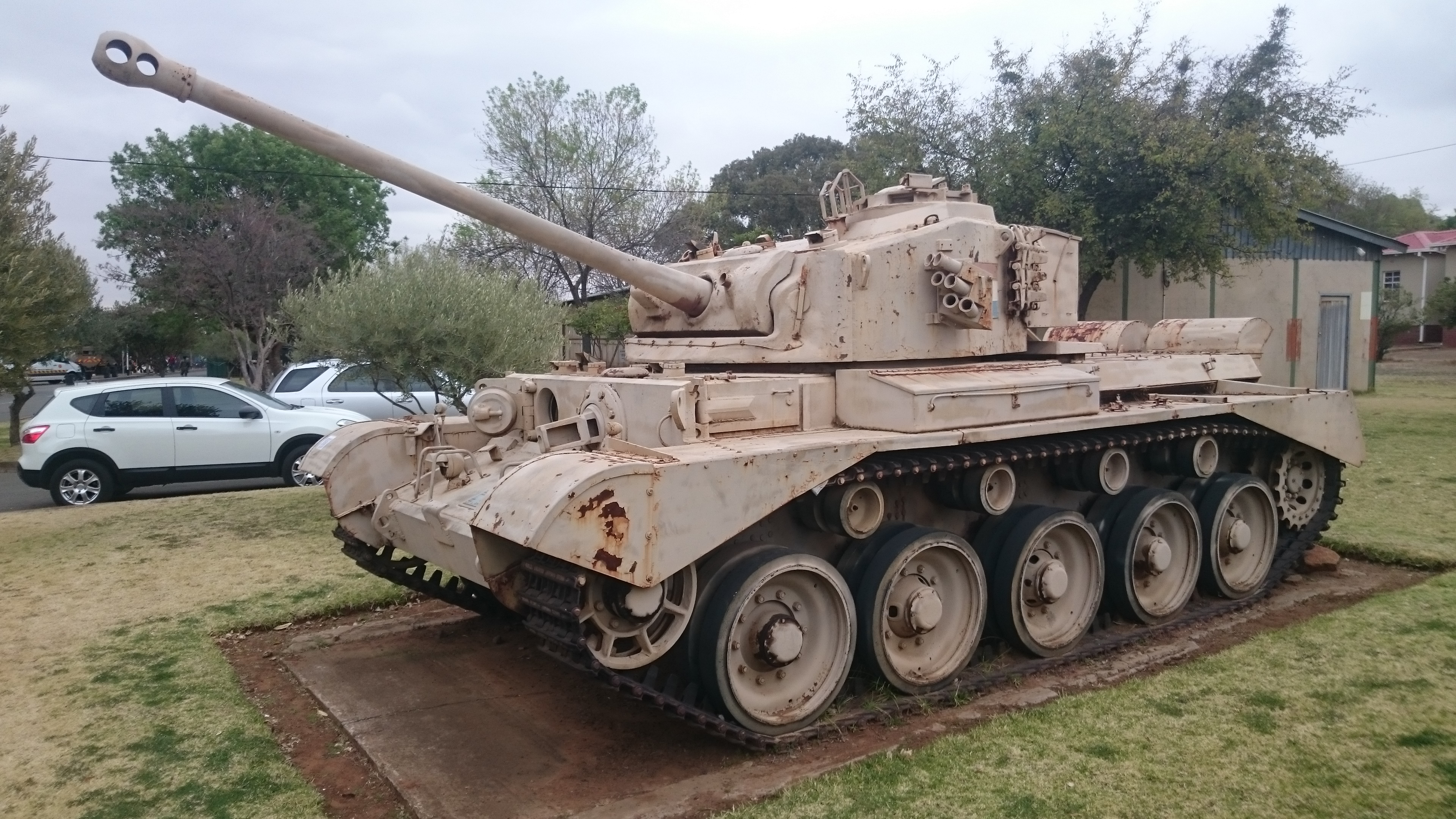 A Comet Type A at the South African Armour Museum. The split independent cowling covers can be seen at the rear of the tank.